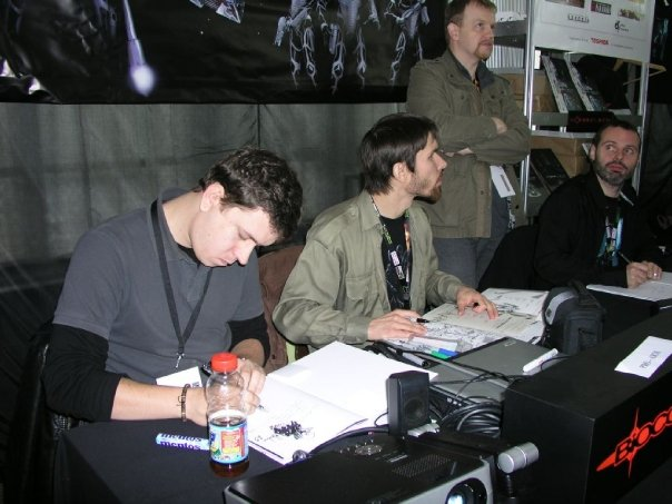 International Festiwal of Comics, Łódź 2-4.10. 2009. Biocosmosis team.